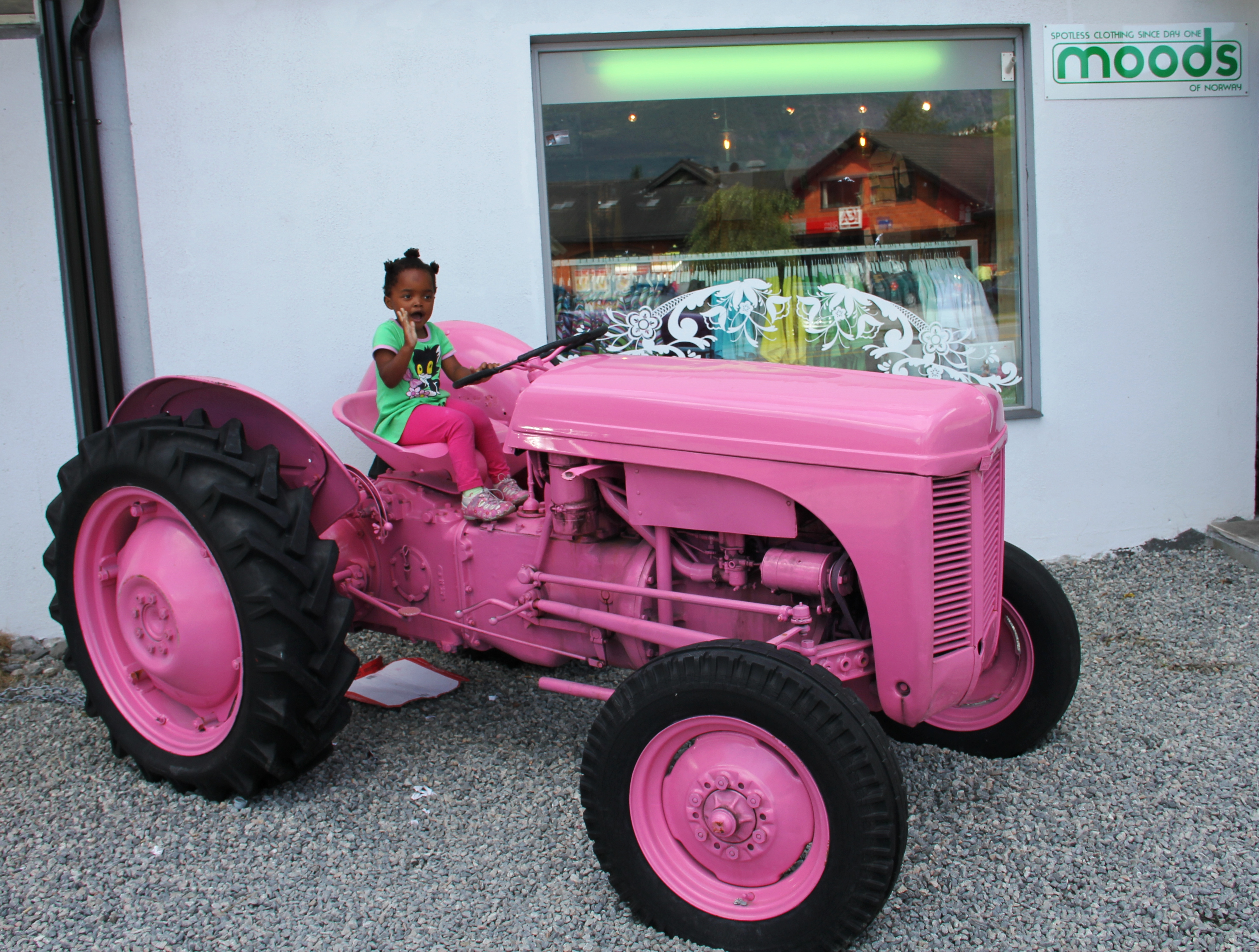 Moods of Norways logo and symbol, the pink Ferguson TE20 tractor, here placed by an Moods outlet store in Stryn